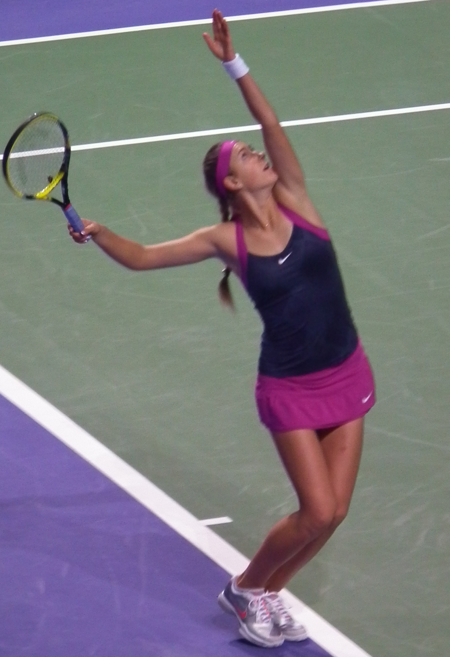 Victoria Azarenka at WTA Istanbul 2011